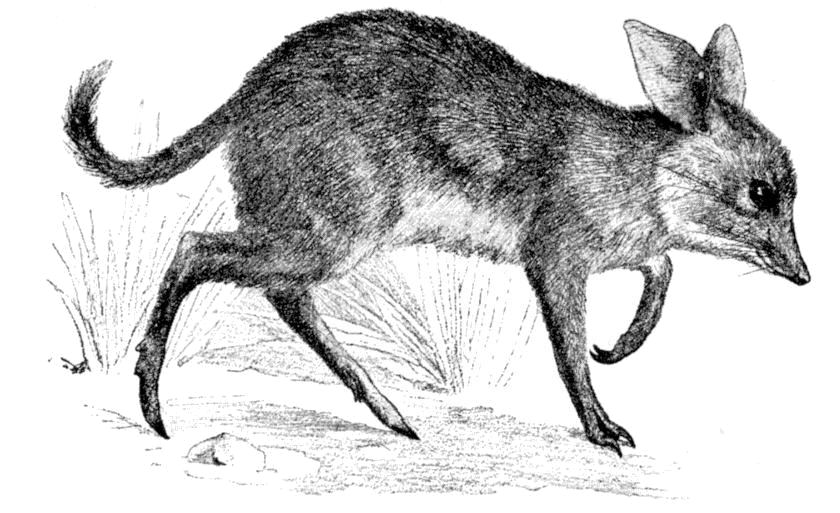 Fig. 87.—Pig-footed Bandicoot. Choeropus castanotis. × ⅓. Choeropus castanotis is now treated as a synonym of †Chaeropus ecaudatus.